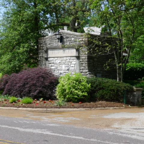 Front Entrance to Fair Oaks in Ladue, MO